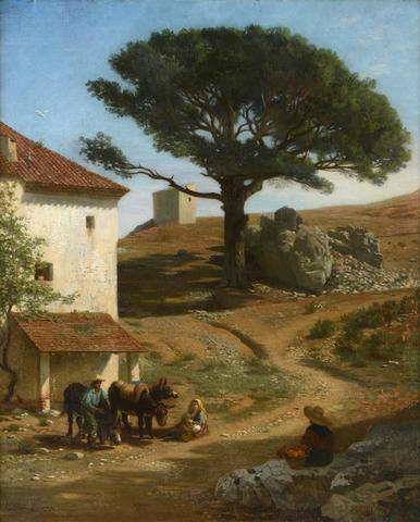 Paysage